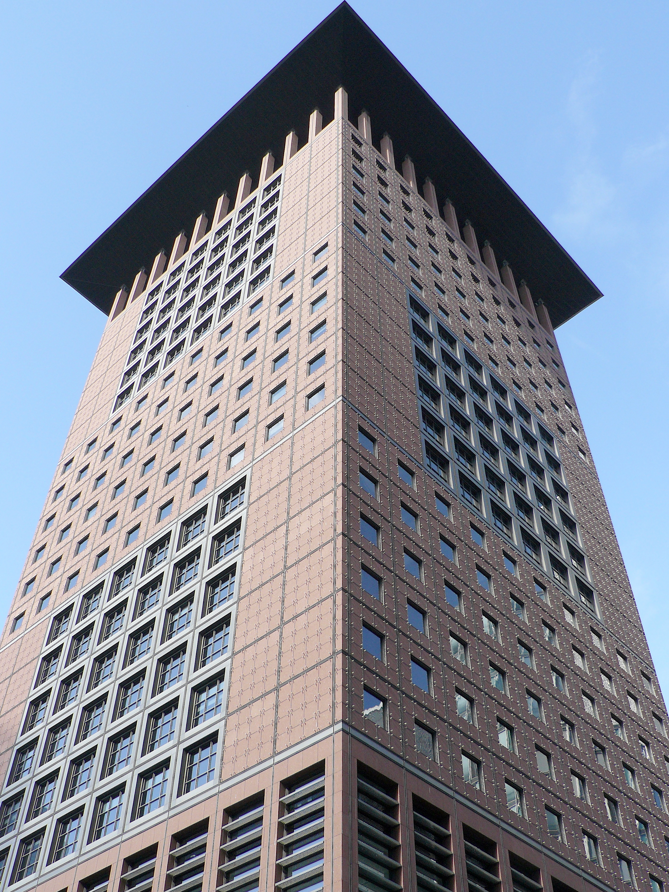 Japan Center Building in Frankfurt, Hesse, Germany